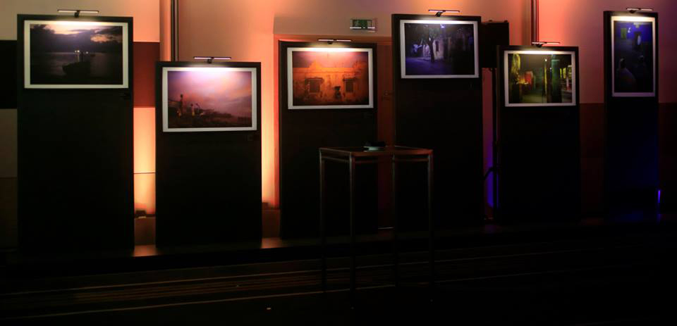 Exhibition " L'heure des loups" by Véronique Durruty, Pullmann Artnight, Brussels, Belgium, 2014